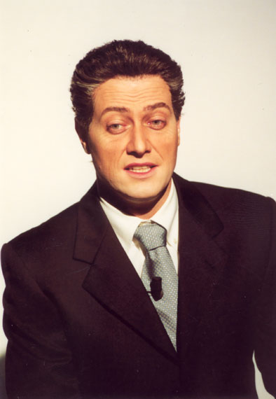 Italian comedian Corrado Guzzanti impersonating former minister and mayor of Rome Francesco Rutelli